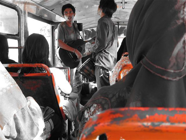 Busking inside a bus, Indonesia